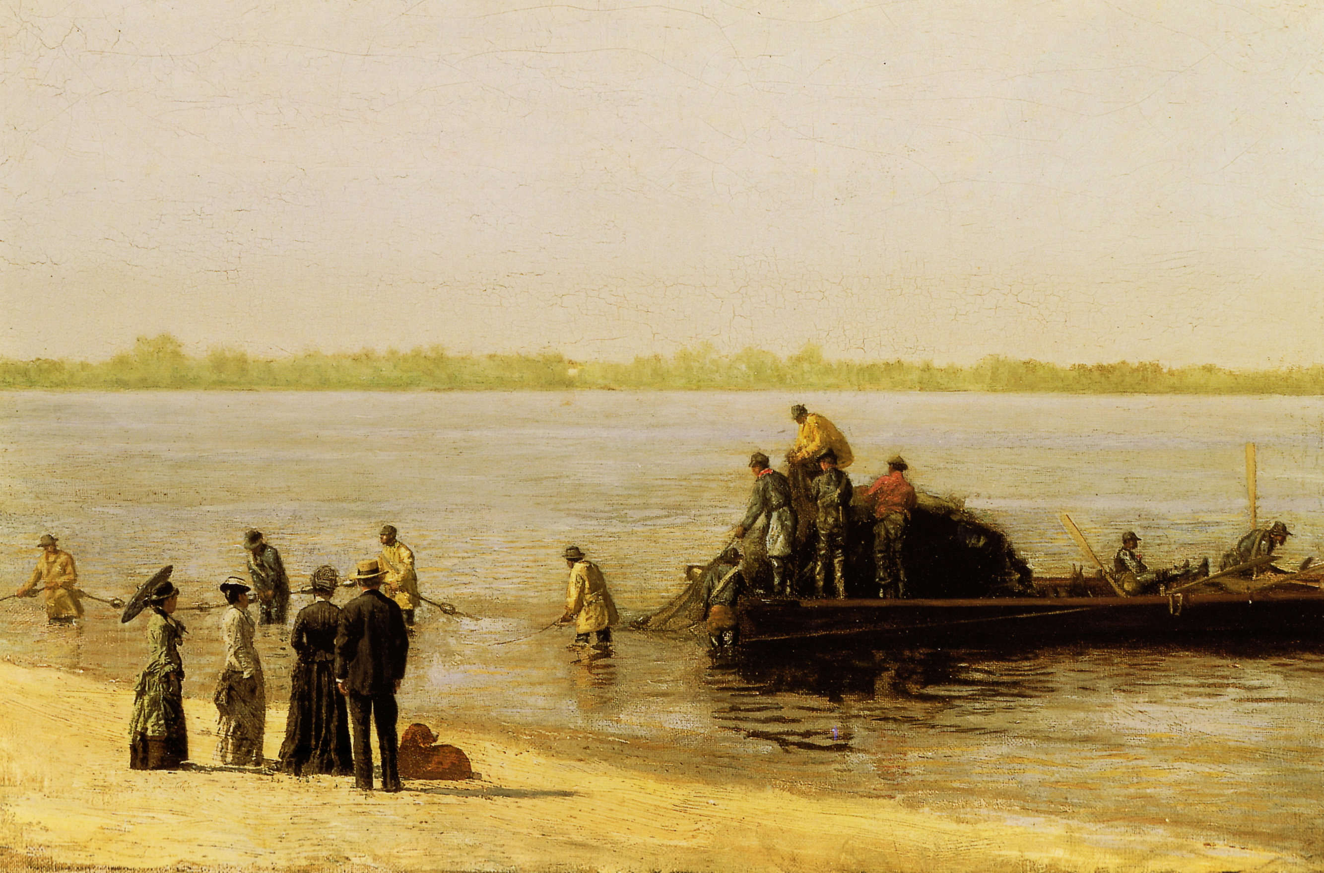 Shad Fishing at Gloucester on the Delaware River by Thomas Eakins